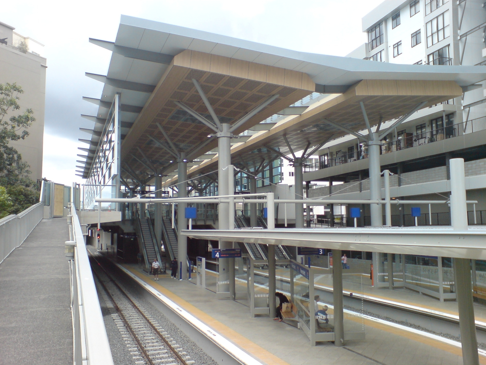 Looking back onto the platforms and main concourse at Newmarket Train Station in Auckland, New Zealand. Looking southwest from the eastern pedestrian access ramp.